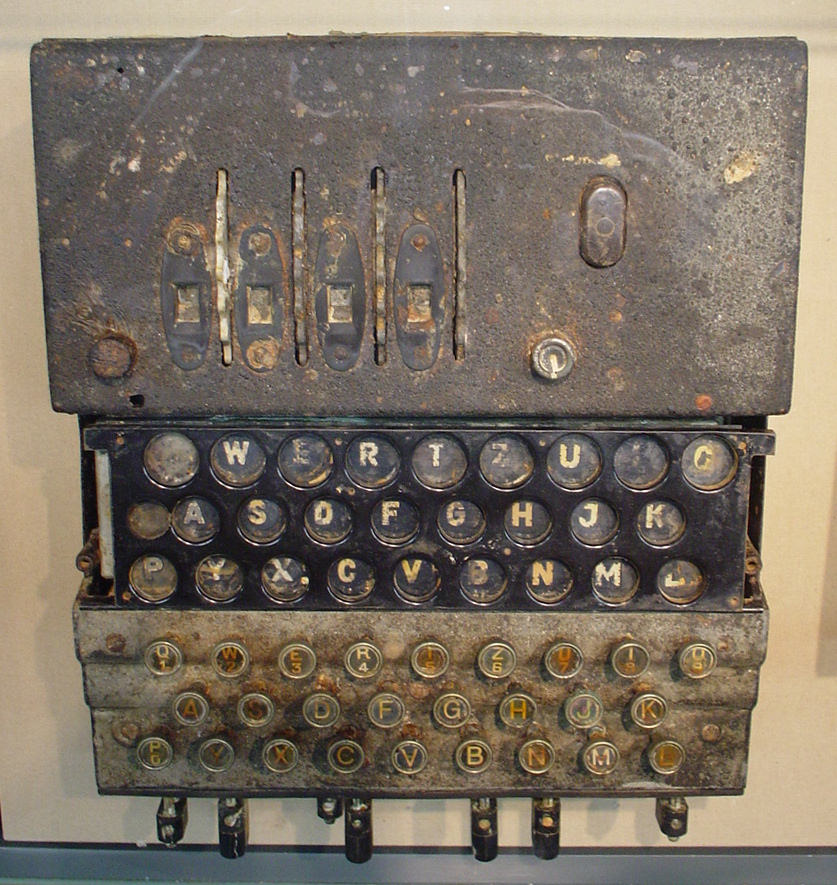 U-534 Enigma machine at the U-Boat Story exhibition, Birkenhead.